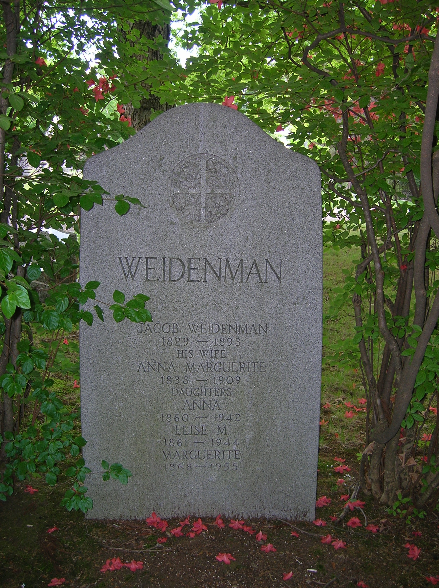 Gravestone monument for Jacob Weidenman (1829-1893) and his family, located at Cedar Hill Cemetery in Hartford, Connecticut. Weidenman, a landscape architect, designed Cedar Hill Cemetery and Bushnell Park in Hartford.